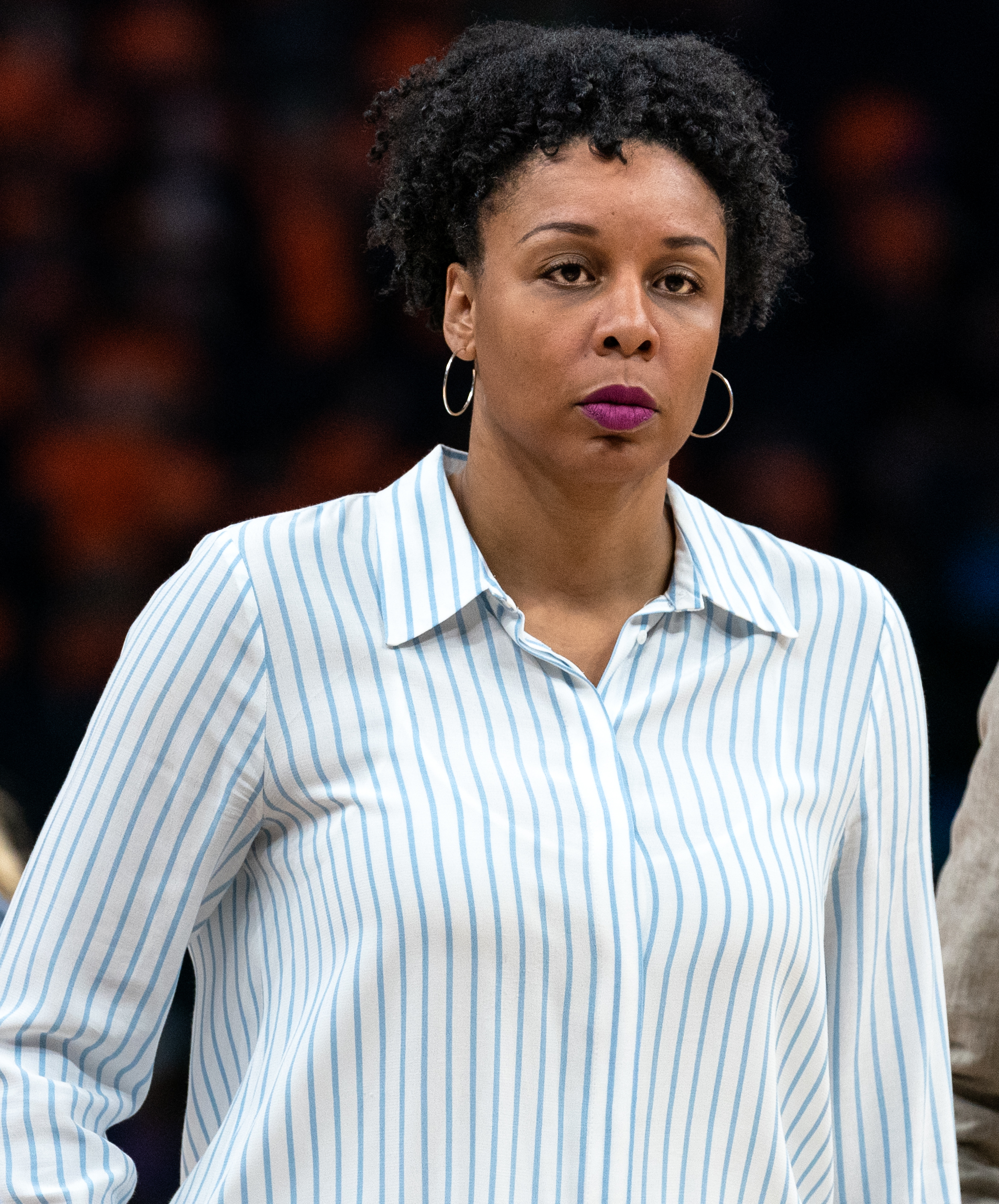 Minnesota Lynx assistant coach Plenette Pierson leaves the court in a game against the Washington Mystics